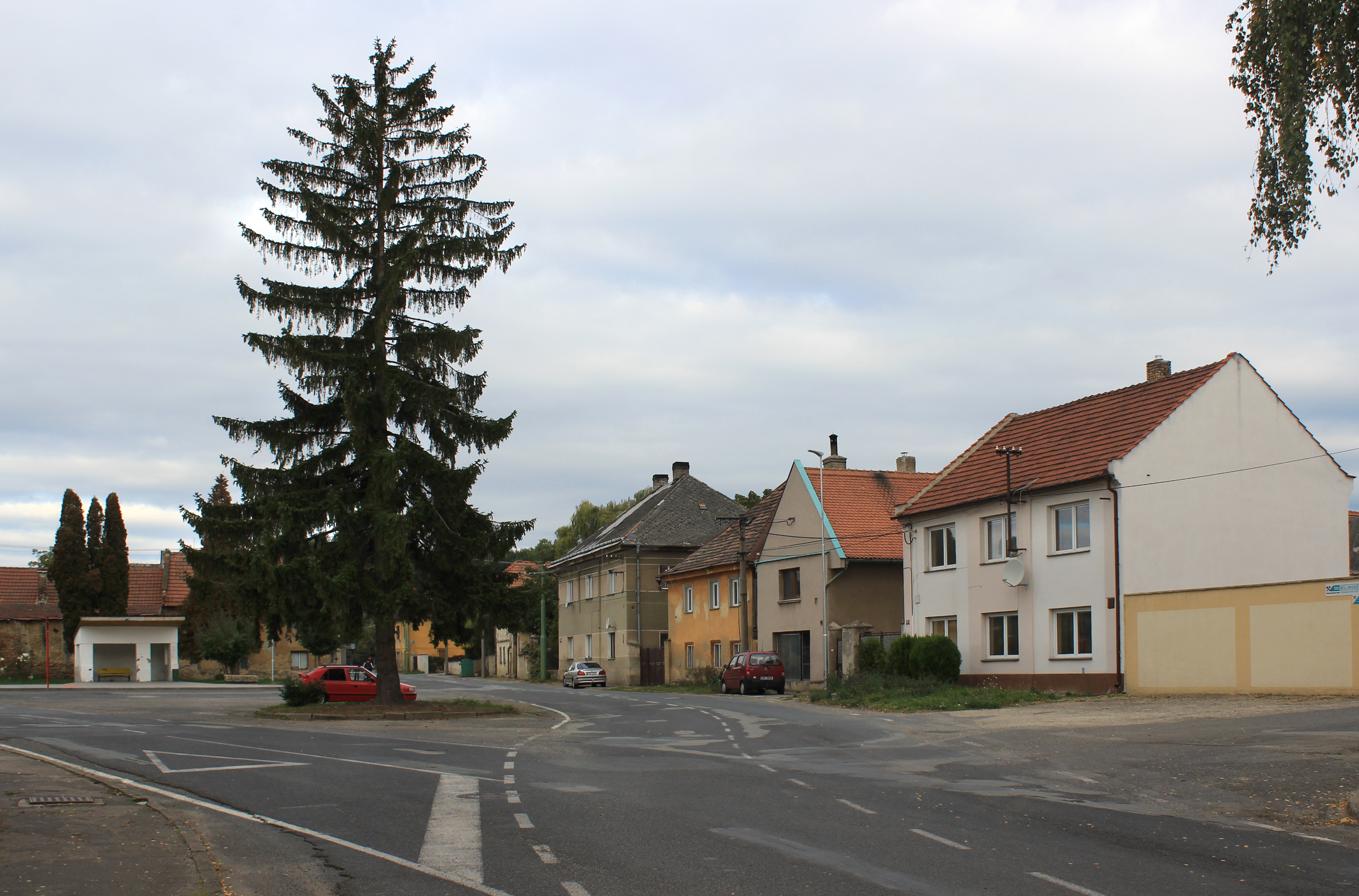 Common in Mělnické Vtelno, Czech Republic.